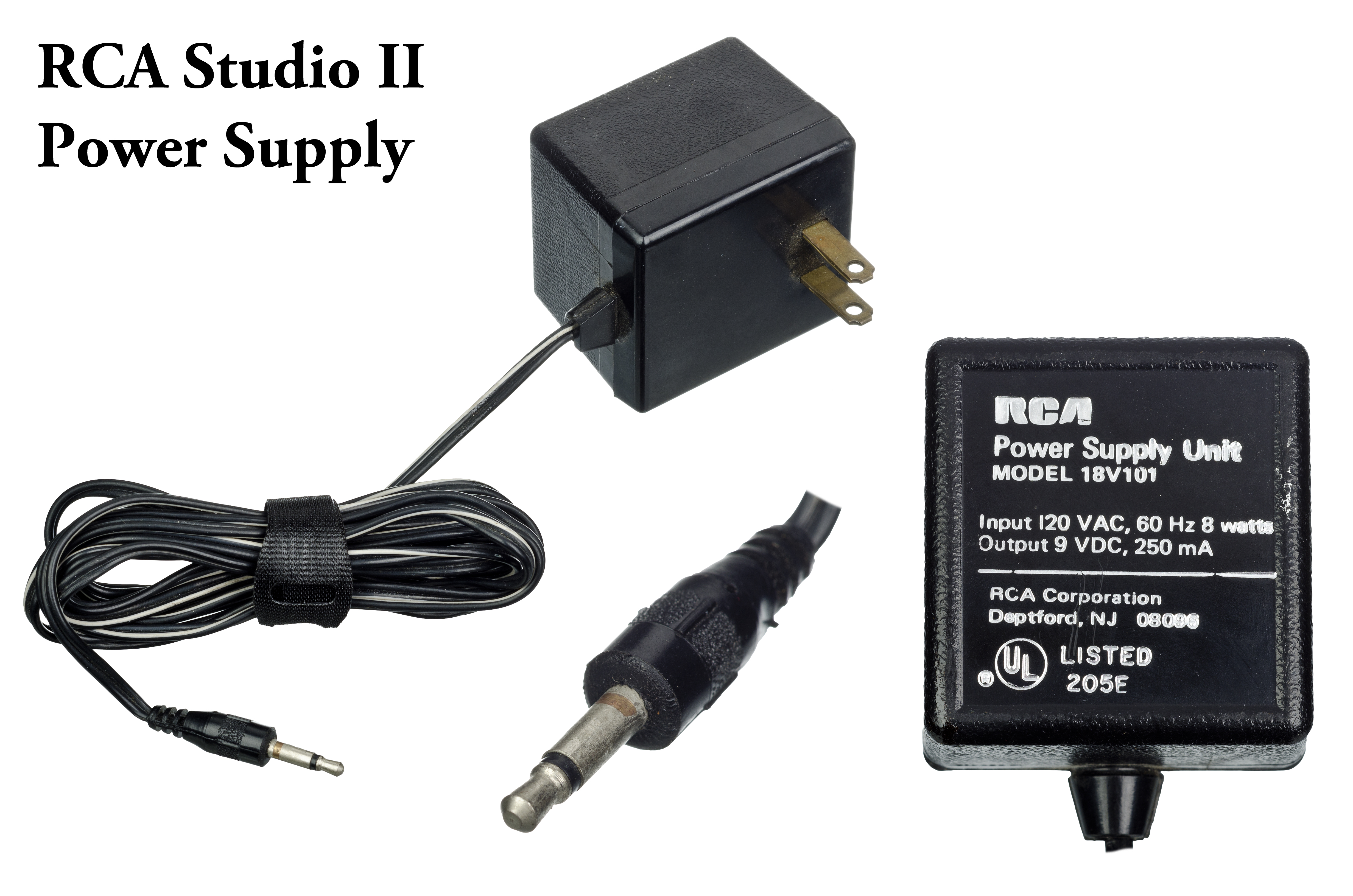 The power supply / AC adapter for the RCA Studio II video game console. Input is 120V AC and output is 9V, 250 mA DC. RCA Power Supply Unit Model 18V101 Input 120 VAC, 60Hz 8 watts Output 9 VDC, 250 mA RCA Corporation Deptford, NJ 08096